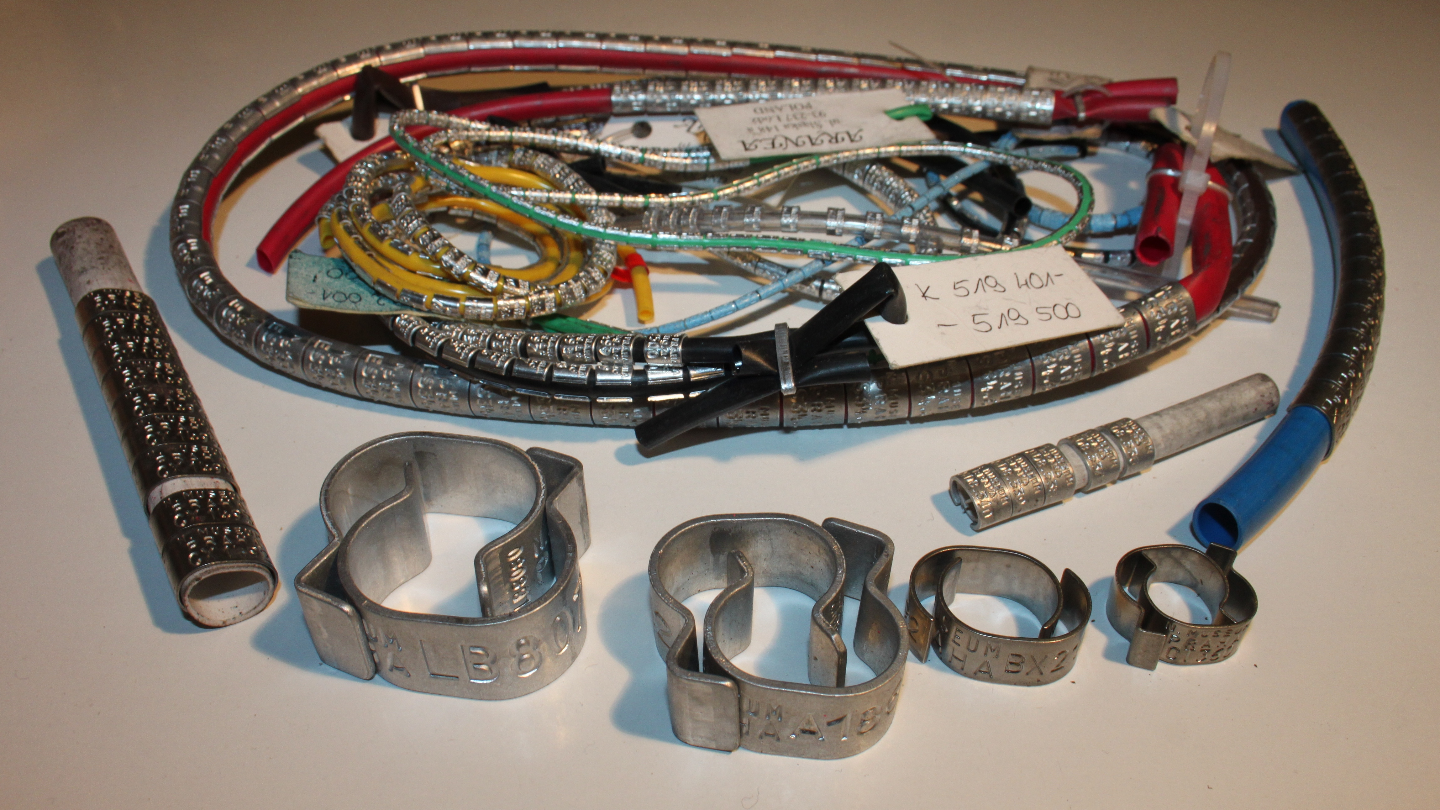 Bird rings used by National museum in Prague (Czech ringing center)